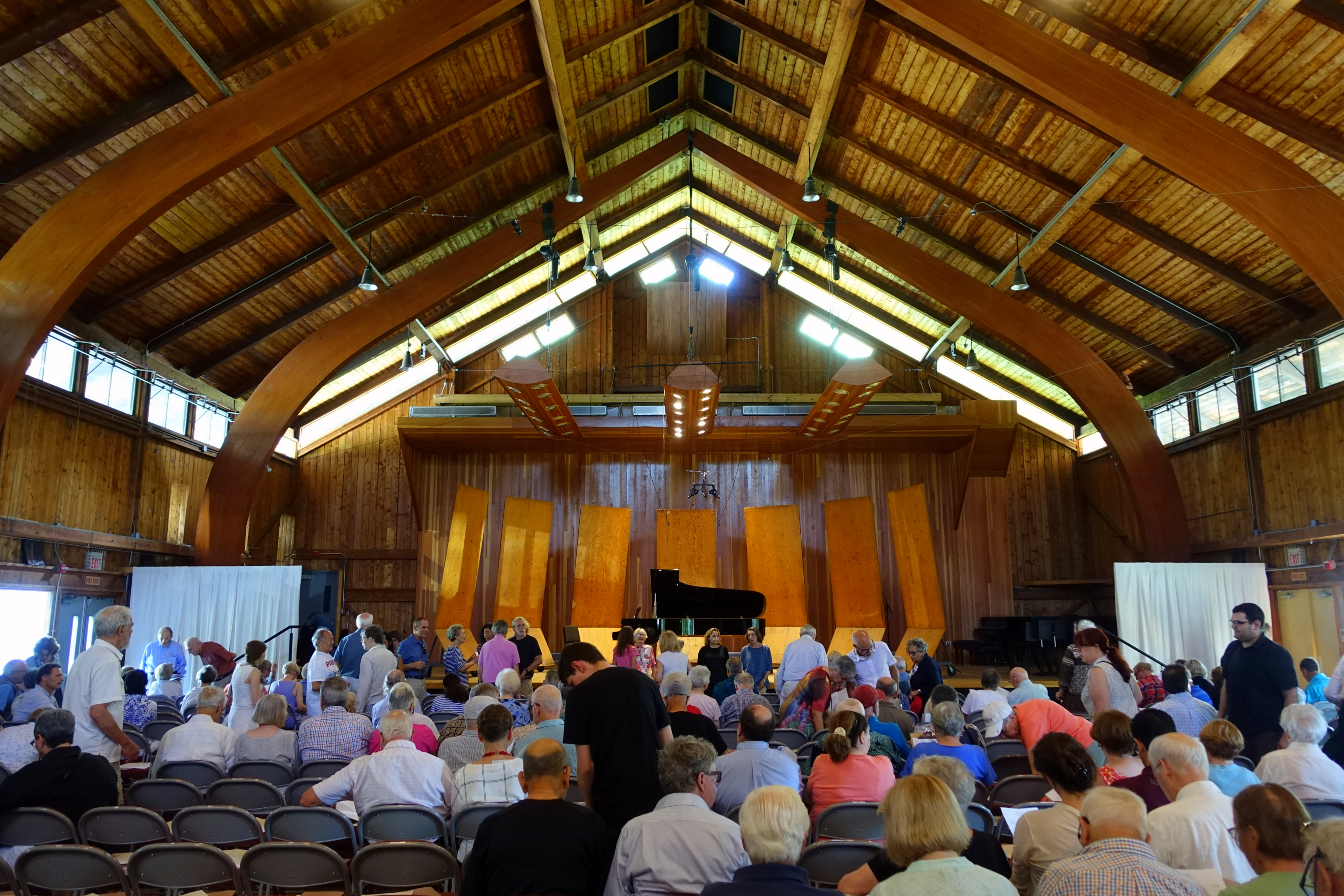 Marlboro Music Festival, a concert in 2019 - Marlboro, Vermont, USA.